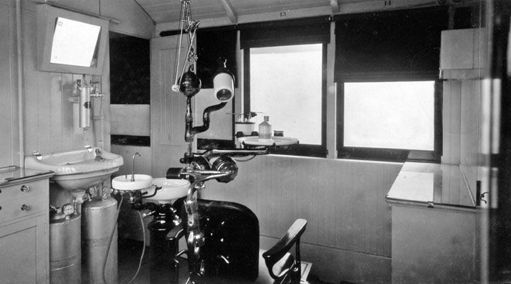 View of surgery inside Department of Public Instruction Rail Dental Clinic Car, Roma Street, Brisbane. (This travelling railway car was used for dental care for school children in isolated areas throughout country Queensland.)